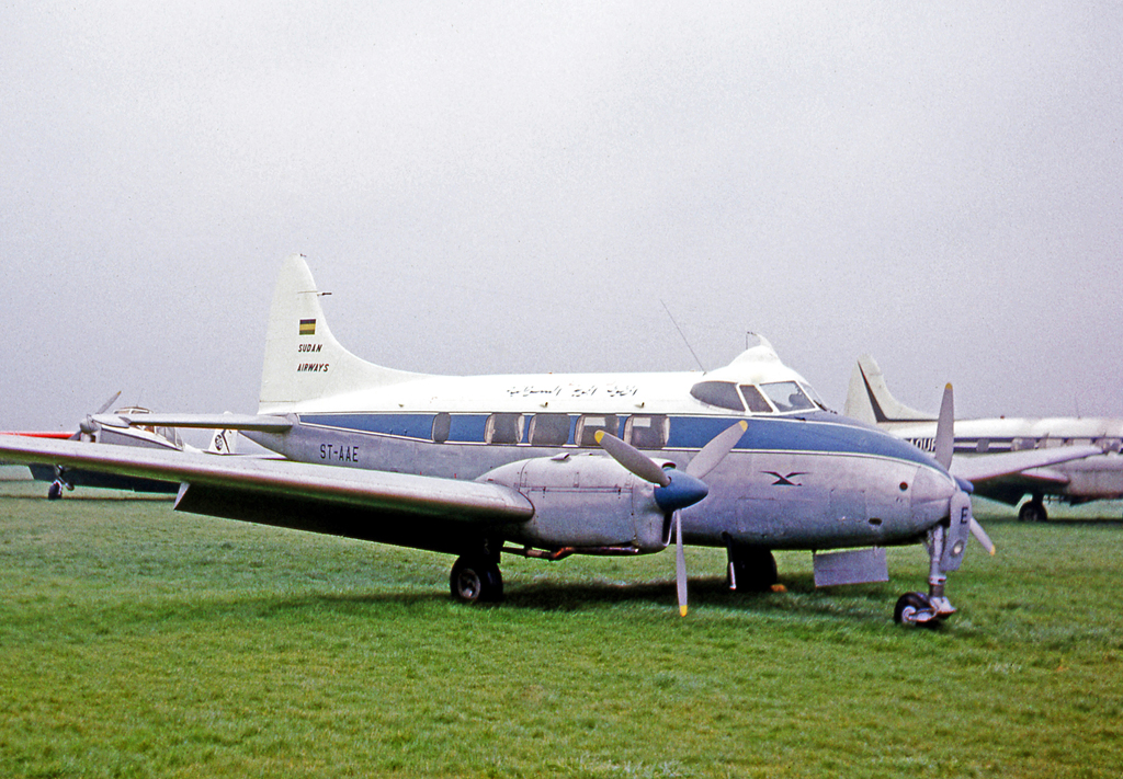 De Havilland DH.104 Dove 1 ST-AAE of Sudan Airways at Coventry Airport in 1967